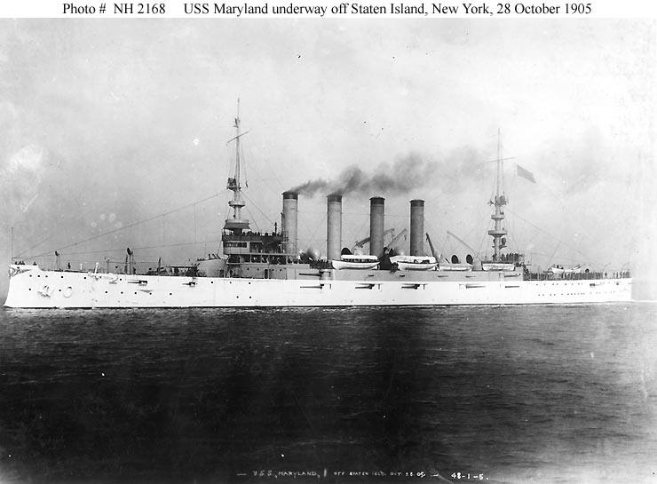 Underway off Staten Island, New York, 28 October 1905.